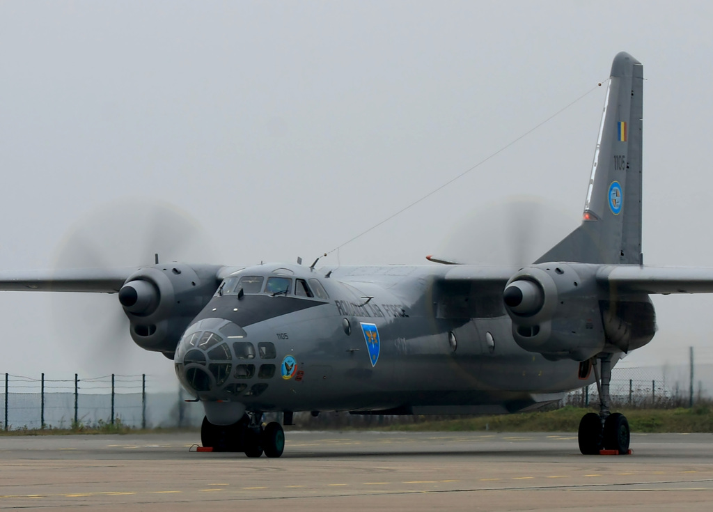 Antonov An-30, belonging to the Romanian Air Force, on the Neubrandenburg Airport